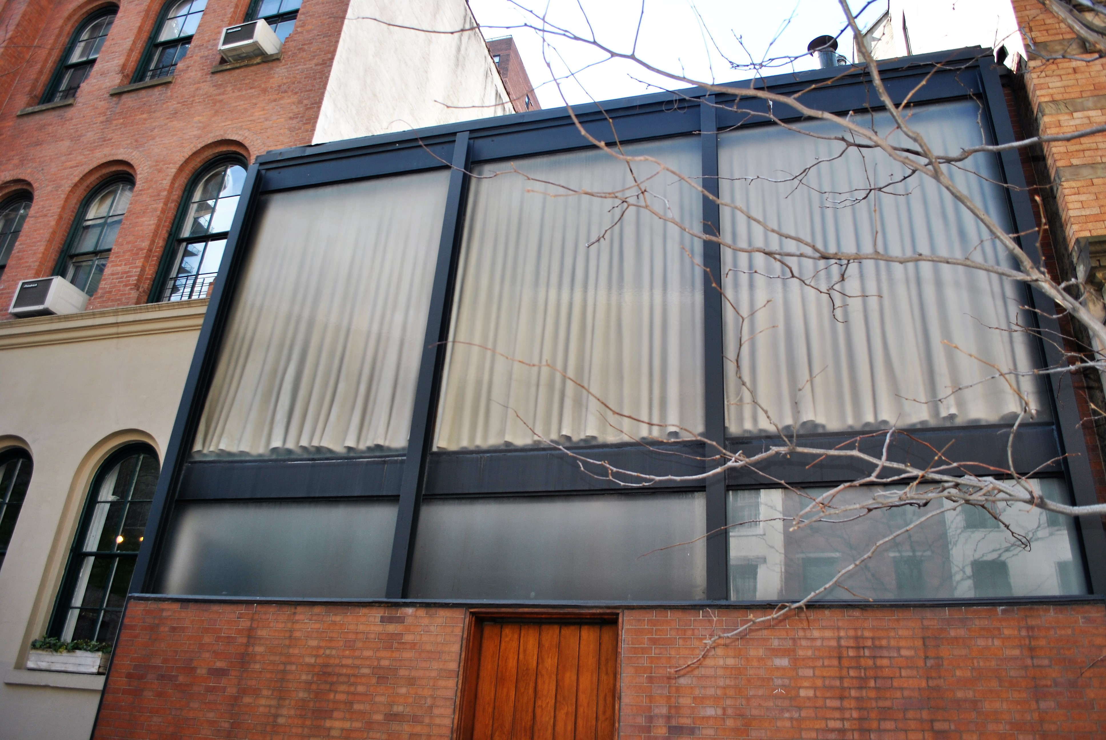 Image originally published in Queer Places: Retracing the Steps of LGBTQ people around the World Authored by Elisa Rolle